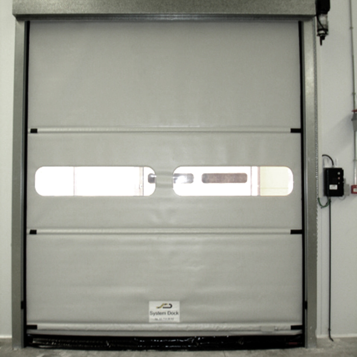 The speed doors are flexible and light doors for intensive industrial use that, thanks to its operational speed, they reduce to the maximum air currents and losses of ambient temperatures, and they make the intense flow of people and vehicles easier.